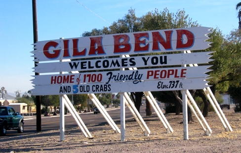 A humorous, numerically outdated sign welcomes people to Gila Bend, Arizona. Photo by Karen Funk Blocher, December 2005.